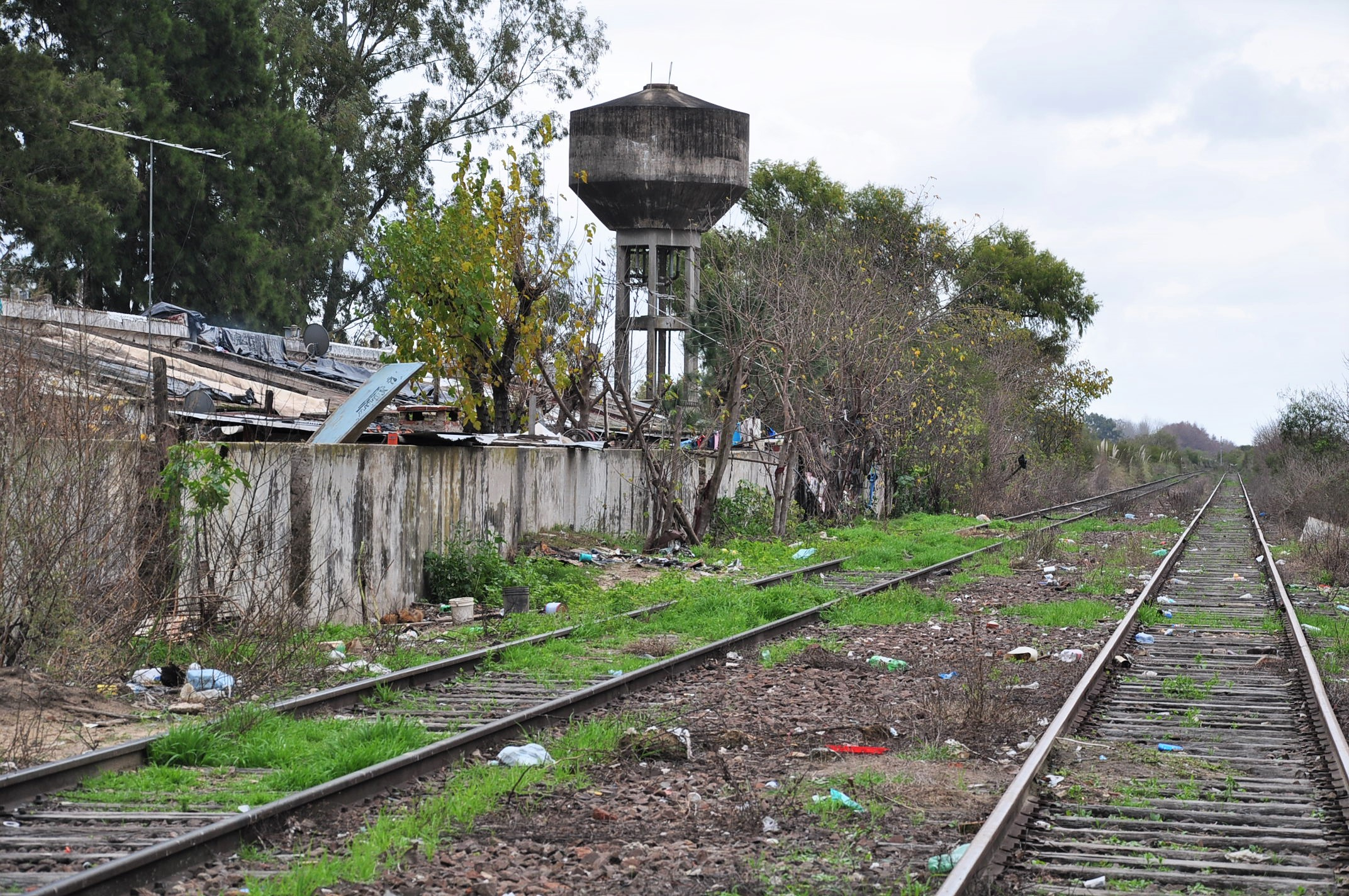 The General Urquiza railway line passing through the hamlet at the Brazo Largo railway station, some 8 km west of the real village of Brazo Largo (municipality of Villa Paranacito, Islas del Ibicuy department, Entre Ríos province, Argentina).